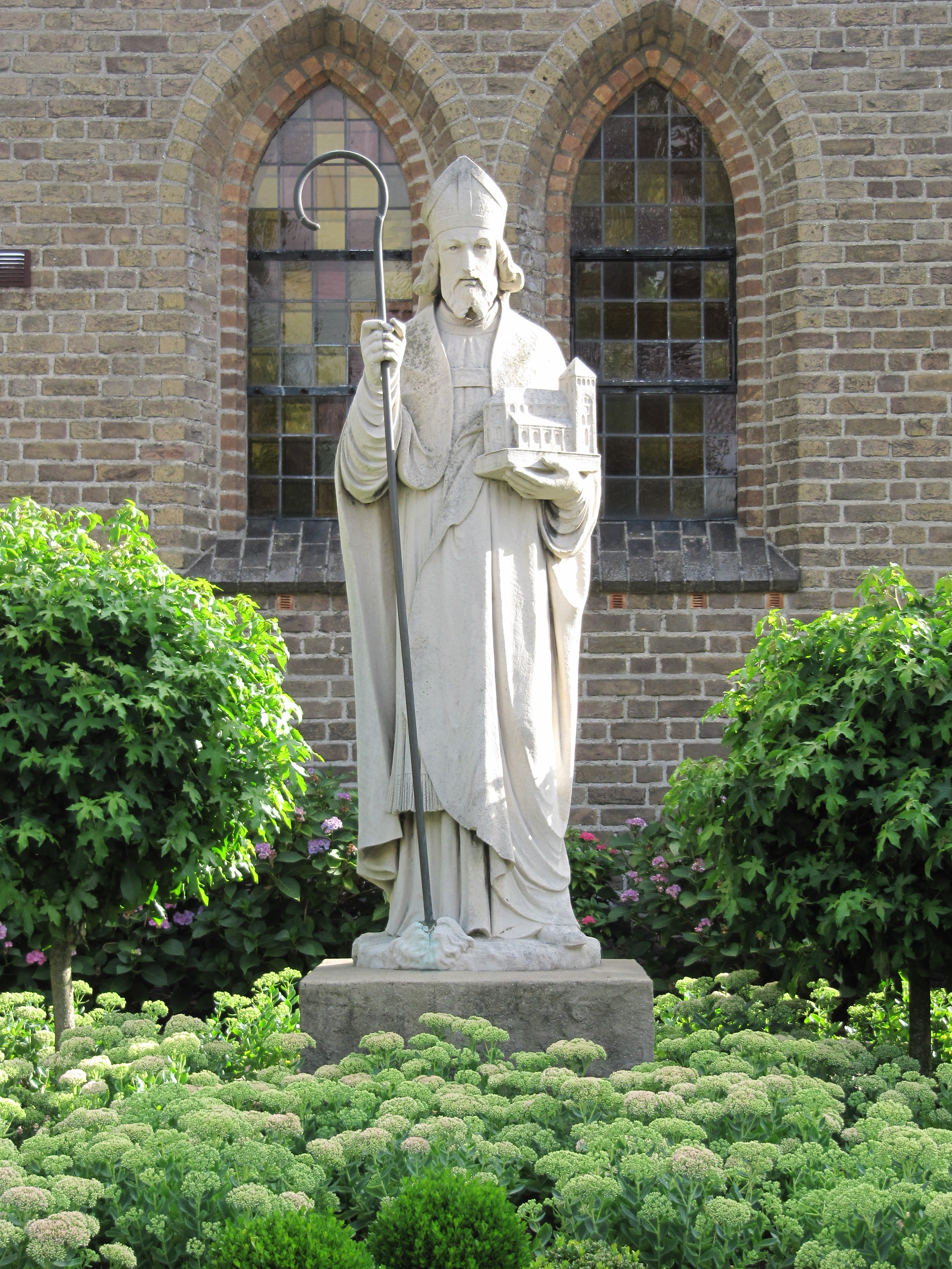 Statue of Saint Willibrord near the Saint Willibrord church at the Burgemeester Verstraatenlaan in Mill, The Netherlands